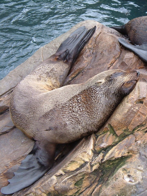 Seal at Living Coasts. Perfect spot for a South American Fur Seal at Living Coasts in Torquay.